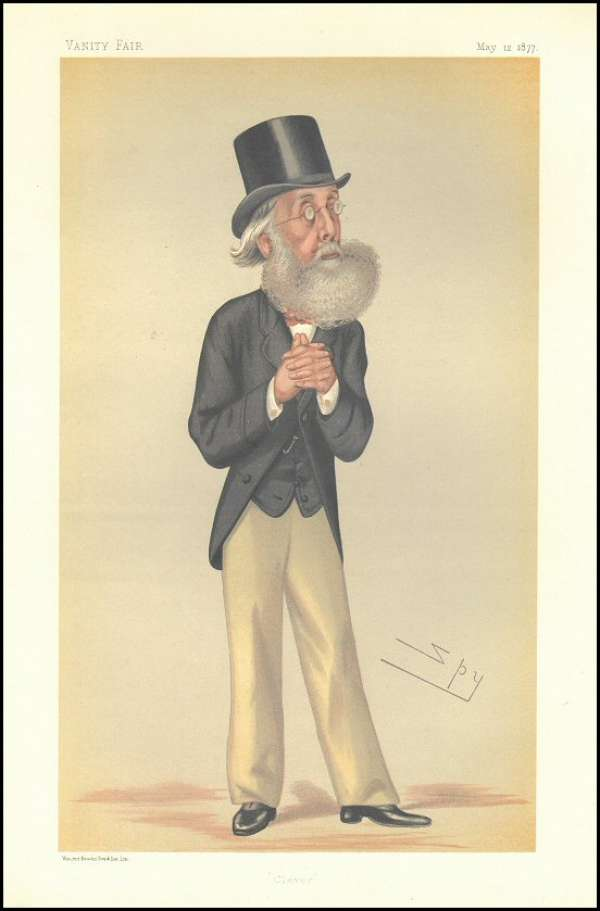 Caricature of Mr William Bromley-Davenport MP. Caption read "Clever".